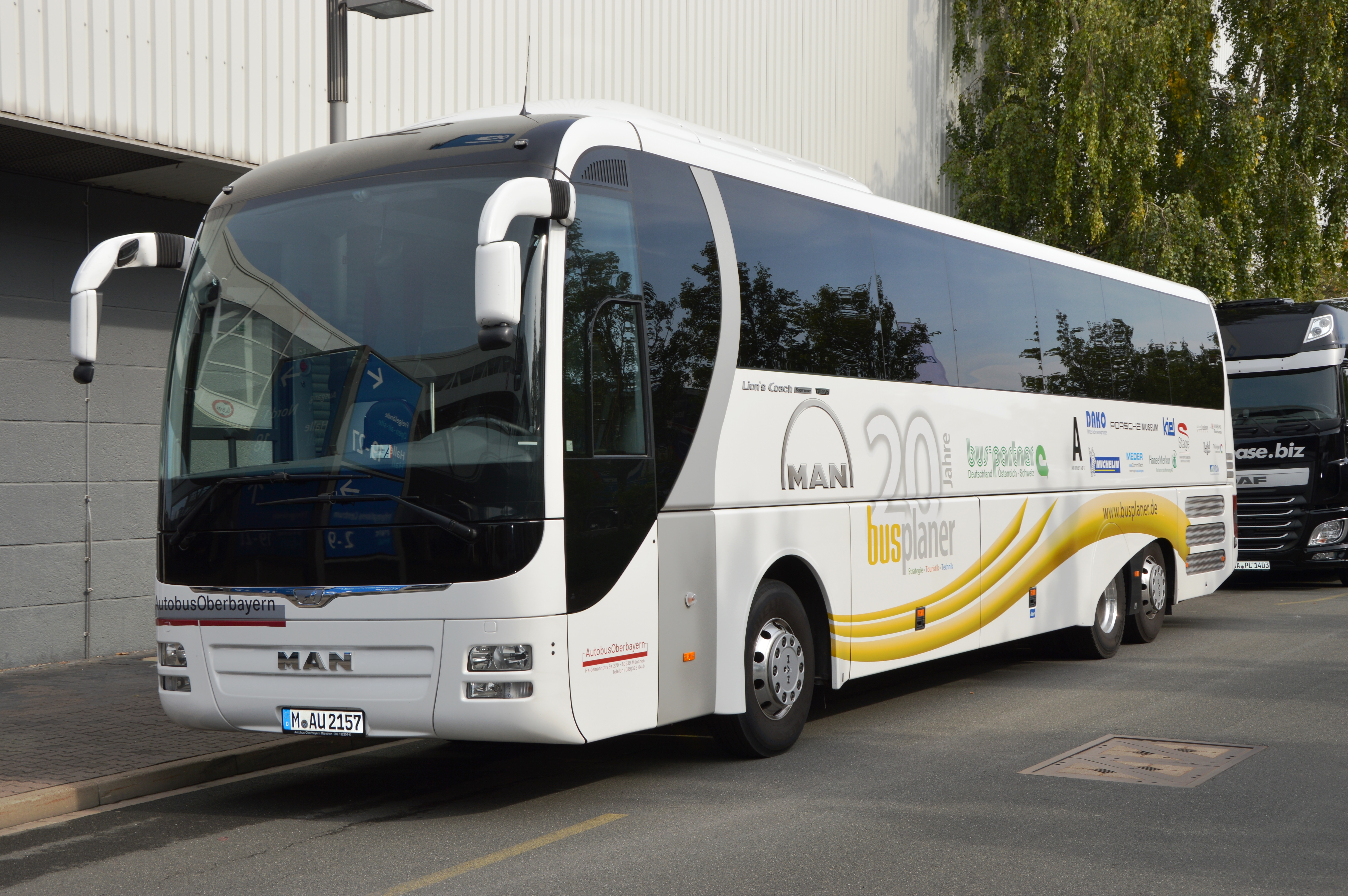 MAN Lion´s coach supreme with 3 axles. Photo taken at exhibition IAA 2014 in Hanover, Germany.